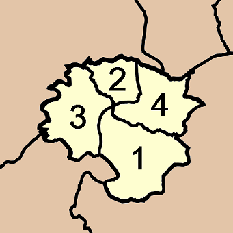 Map of Ban Na Doen district, Surat Thani province, with the communes (tambon) numbered Ban Na (บ้านนา) Tha Ruea (ท่าเรือ) Sap Thawi (ทรัพย์ทวี) Na Tai (นาใต้)